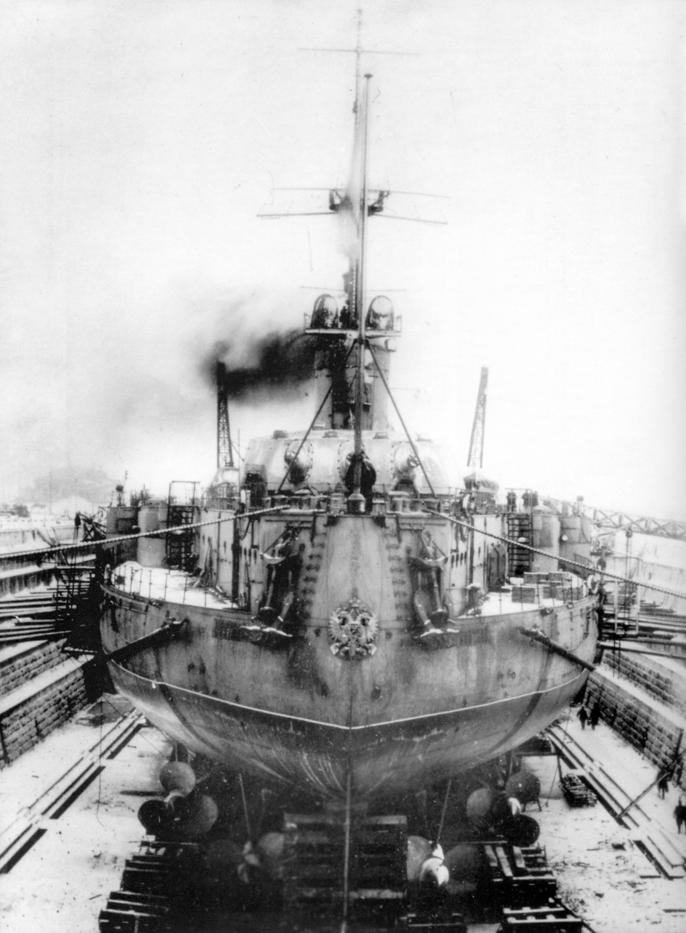 Imperial Russian battleship Poltava on the dock.